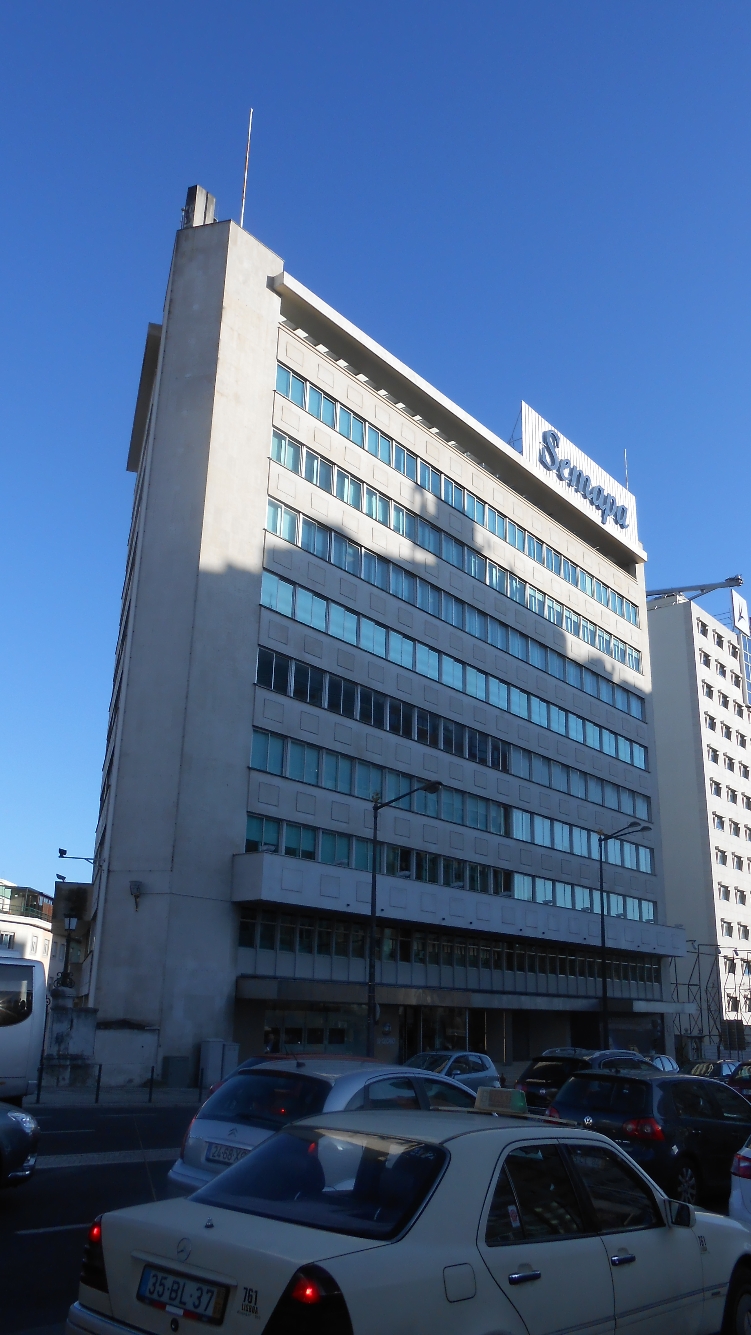 Administration building of the portuguese Semapa company.